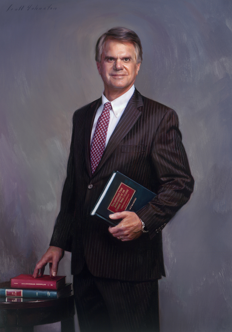 Official Oil Portrait Art by Scott Wallace Johnston of President David Burcham, Loyola Mary Mount University